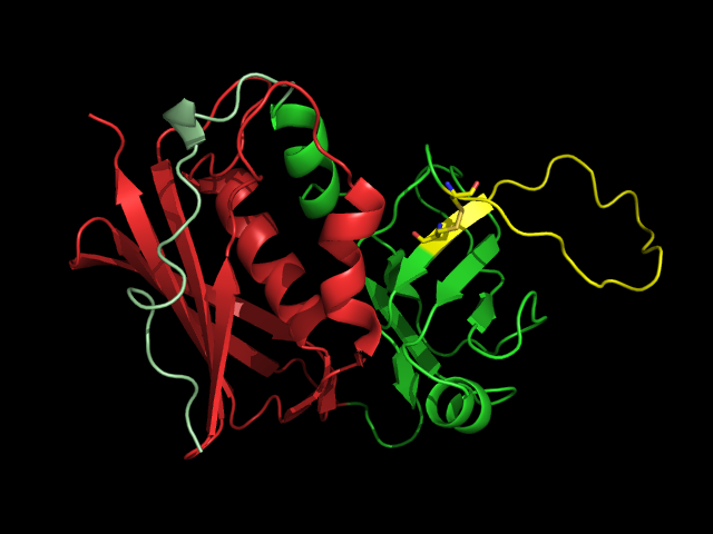 Image made by Bassophile, using PDB code 3SEB and PyMol